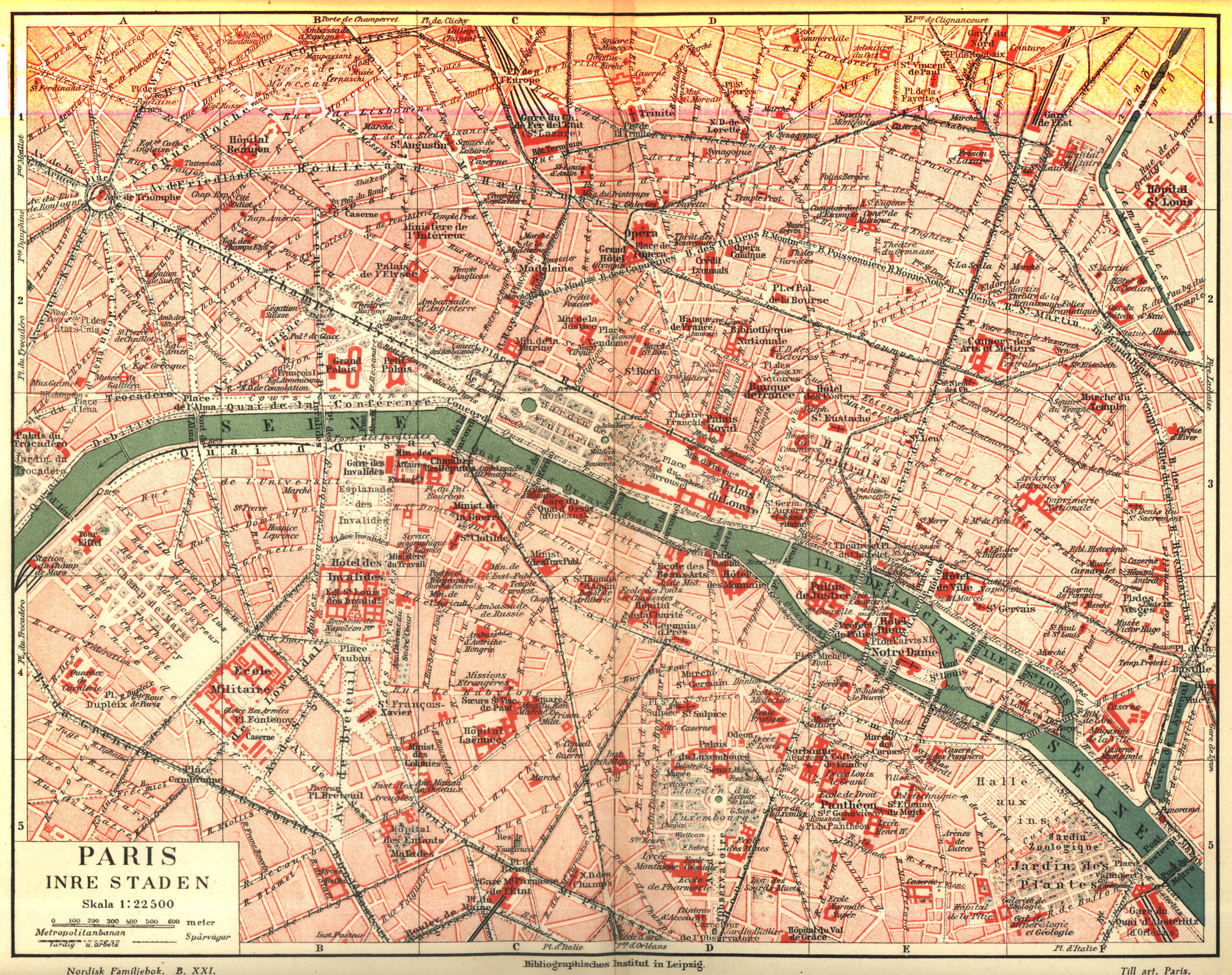 Mapf of Paris at the 1910s